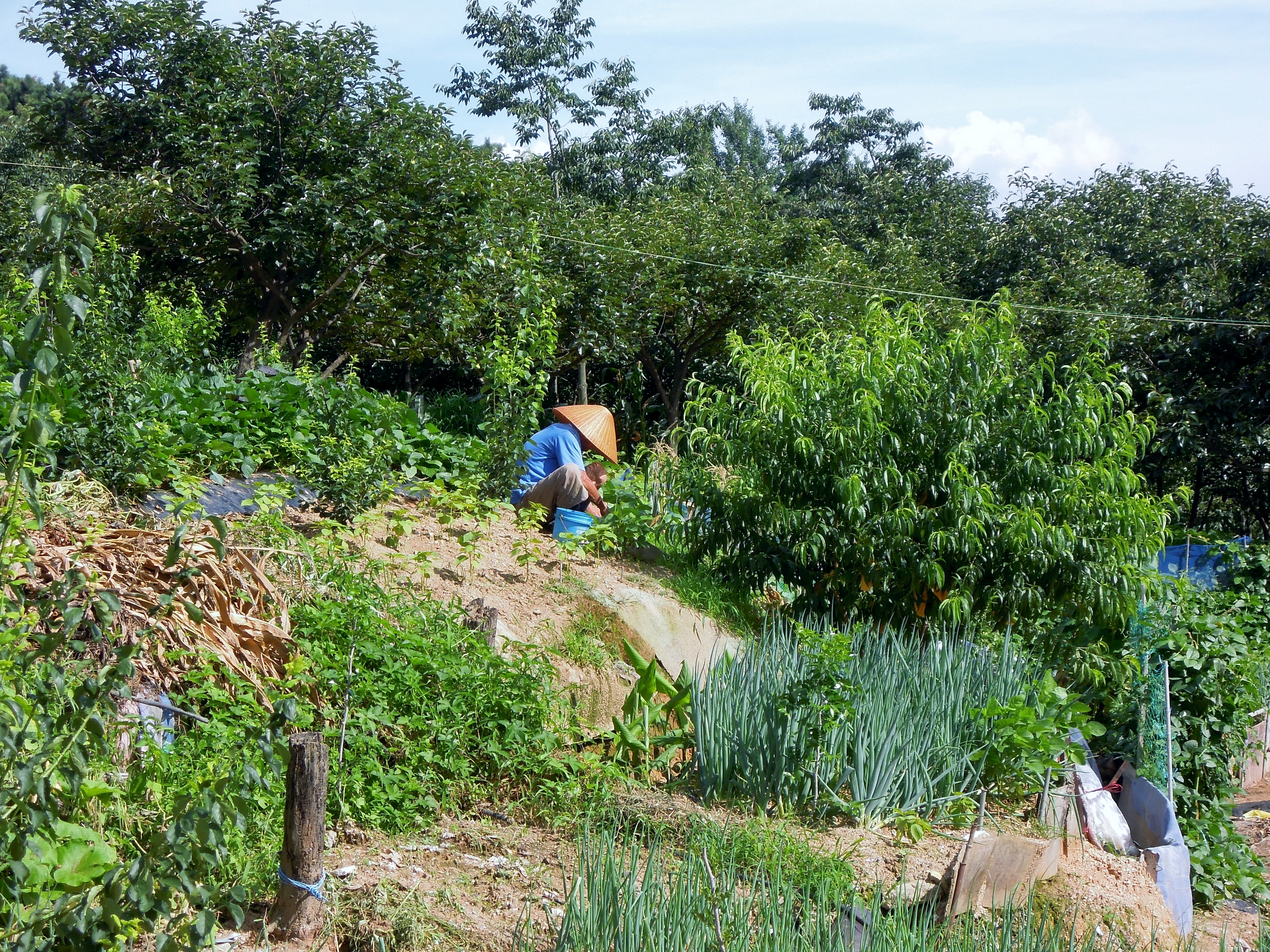 A farmer on a smallholding in Ipbuk-dong, Suwon, South Korea